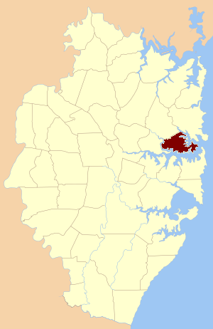 original location of the parish within Cumberland County, New South Wales (Sydney area)